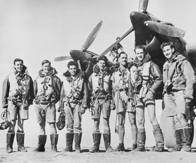 AWM caption : A Handley Page Halifax heavy bomber squadron, No. 462 Squadron RAAF, operating in the Middle East Command is manned by flying crews from all over the Empire. Left to right: Sergeant (Sgt) N. Dear of Dundee, Scotland, pilot Flight Sergeant (Flt Sgt) N. L. Foster of Hamilton, New Zealand, bomb aimer Sgt R. W. Williams of Liverpool, England, flight engineer Sgt P. Beever of Horsham, Sussex, England, rear gunner Flt Sgt W. J. Cole of Brisbane, Qld, mid-upper gunner Flt Sgt P. E. Godfrey of St John's, Newfoundland, wireless operator Sgt F. H. Fishpool of Gloucester, England, navigator